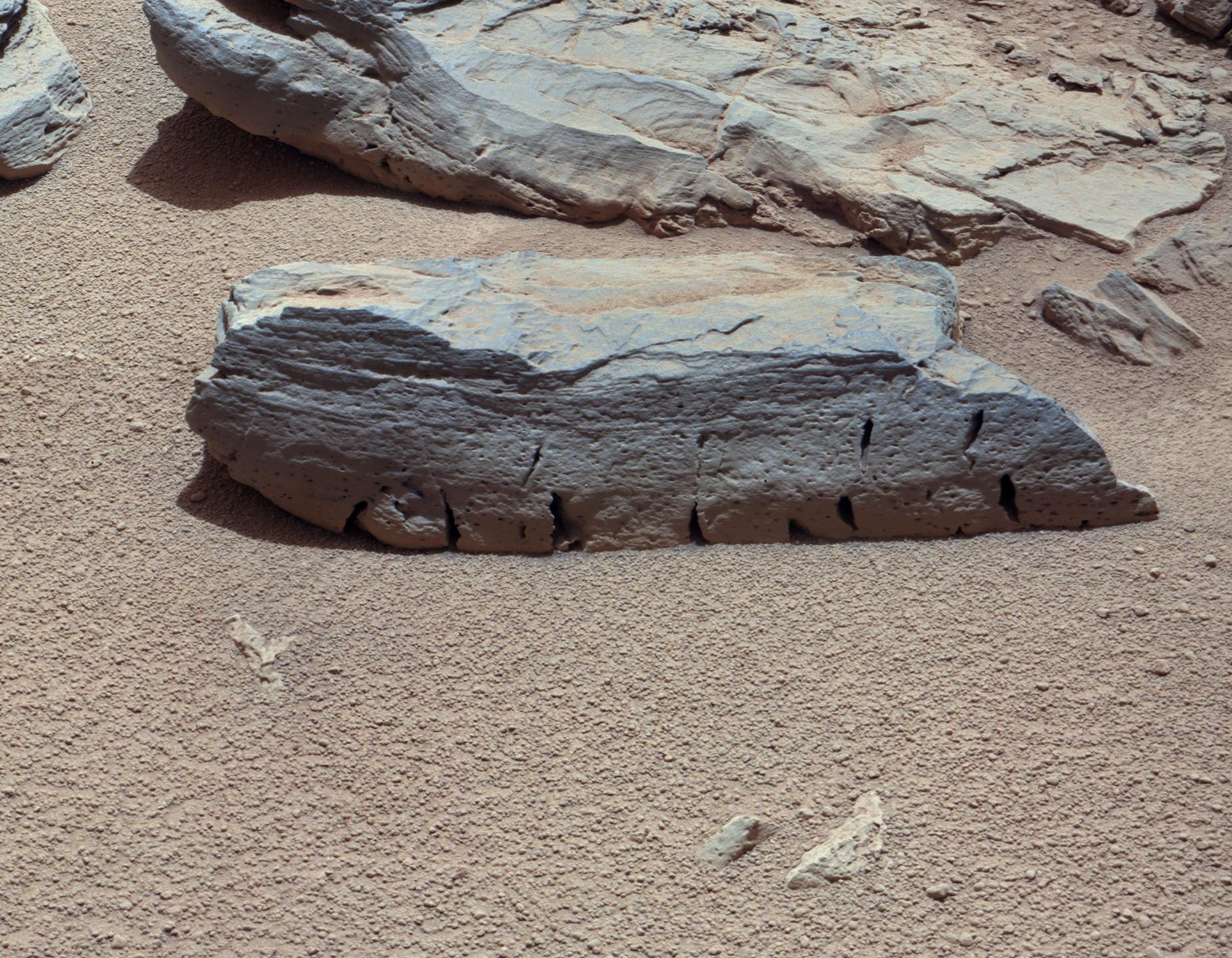 PIA16452: A Martian Rock Called 'Rocknest 3' Target Name: Mars Is a satellite of: Sol (our sun) Mission: Mars Science Laboratory (MSL) Spacecraft: Curiosity Instrument: Mastcam Product Size: 1851 x 1440 pixels (width x height) Produced By: Malin Space Science Systems Full-Res TIFF: PIA16452.tif (7.999 MB) Full-Res JPEG: PIA16452.jpg (538.1 kB) Click on the image above to download a moderately sized image in JPEG format (possibly reduced in size from original) Original Caption Released with Image: Figure 1 Figure 2 Click on an individual image for larger views This view of a Martian rock called "Rocknest 3" combines four images taken by the right-eye camera of the Mast Camera (Mastcam) instrument, which has a telephoto, 100-millimeter-focal-length lens. The component images were taken a few minutes after Martian noon on the 59th Martian day, or sol, of Curiosity's operations on Mars (evening of Oct. 5, 2012, PDT). Rocknest 3 is a rock approximately 15 inches (40 centimeters) long and 4 inches (10 centimeters) tall, next to the "Rocknest" patch of windblown dust and sand where Curiosity scooped and analyzed soil samples. The Mastcam was about 13 feet (4 meters) from the rock when the component images were taken, providing an image scale of about 0.01 inch (0.3 millimeter) per pixel. The image has been white-balanced to show what the rock would look like if it were on Earth. Figure 1 is a raw-color version, showing what the rock looks like on Mars to the camera. Figure 2 includes annotation indicating the portion of Rocknest 3 covered in Sol 57 imaging by Curiosity's Chemistry and Camera (ChemCam) instrument at PIA16451. JPL, a division of the California Institute of Technology, Pasadena, manages the Mars Science Laboratory Project for NASA's Science Mission Directorate, Washington. JPL designed and built the rover. More information about Curiosity is online at and Image Credit: NASA/JPL-Caltech/Malin Space Science Systems Image Addition Date: 2012-11-26